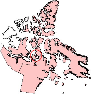 Base image created by Keith Edkins as GFDL, modified by Tim Vasquez.